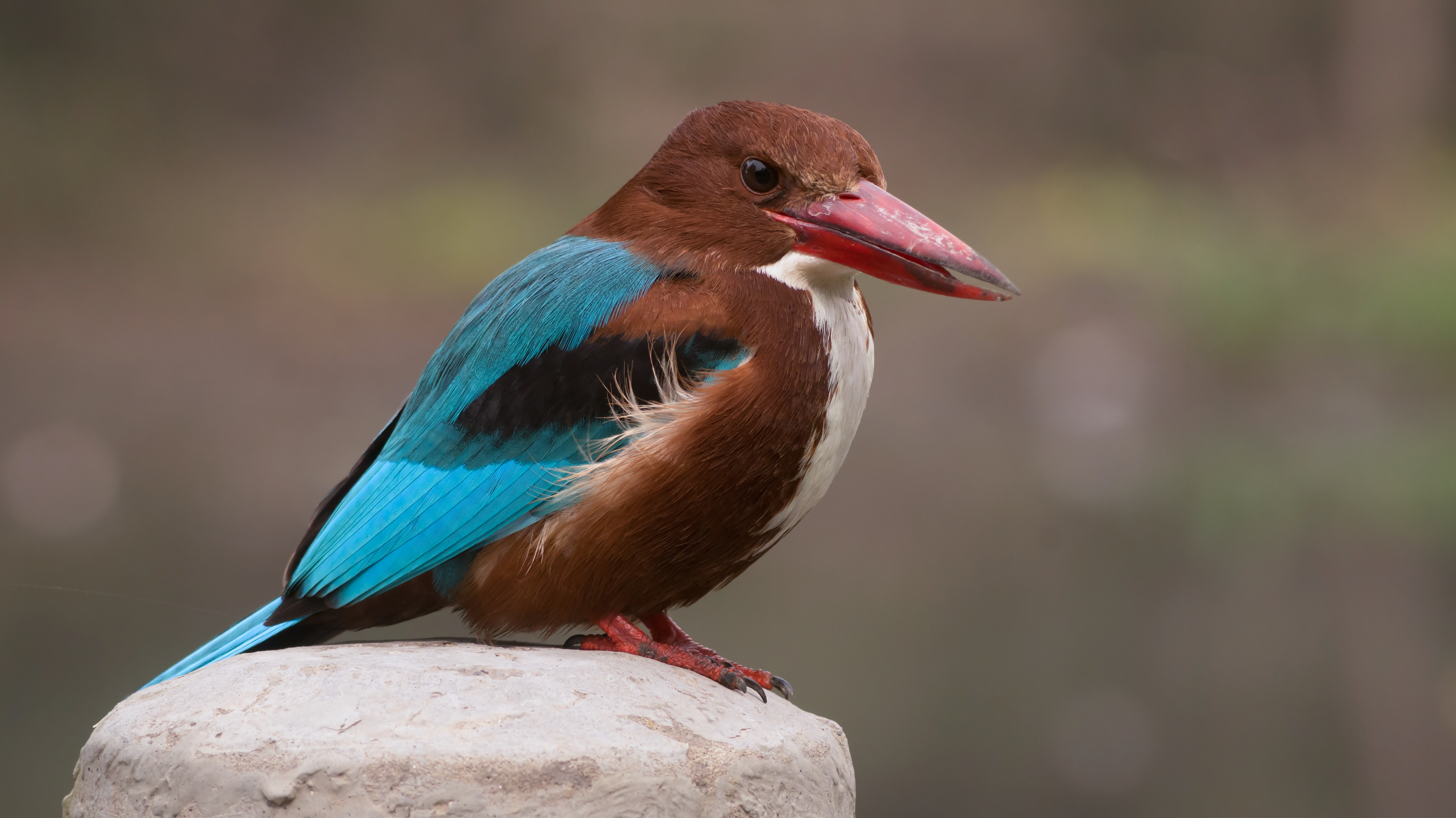 White-throated Kingfisher near Jargari, Ludhiana district, Punjab.